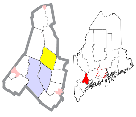 Map of the divisions of Androscoggin County, Maine, United States, with the town of Greene highlighted in yellow. The cities of Auburn and Lewiston are light blue; other towns are white; and pink areas are census-designated places within towns.